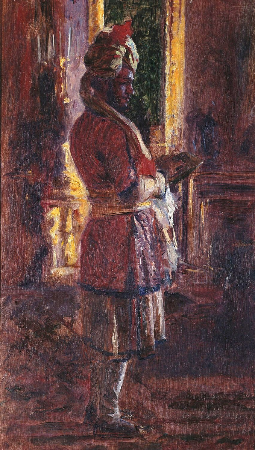 Painting, "The Munshi Abdul Karim", painted for Queen Victoria by Laurits Regner Tuxen, 1887.